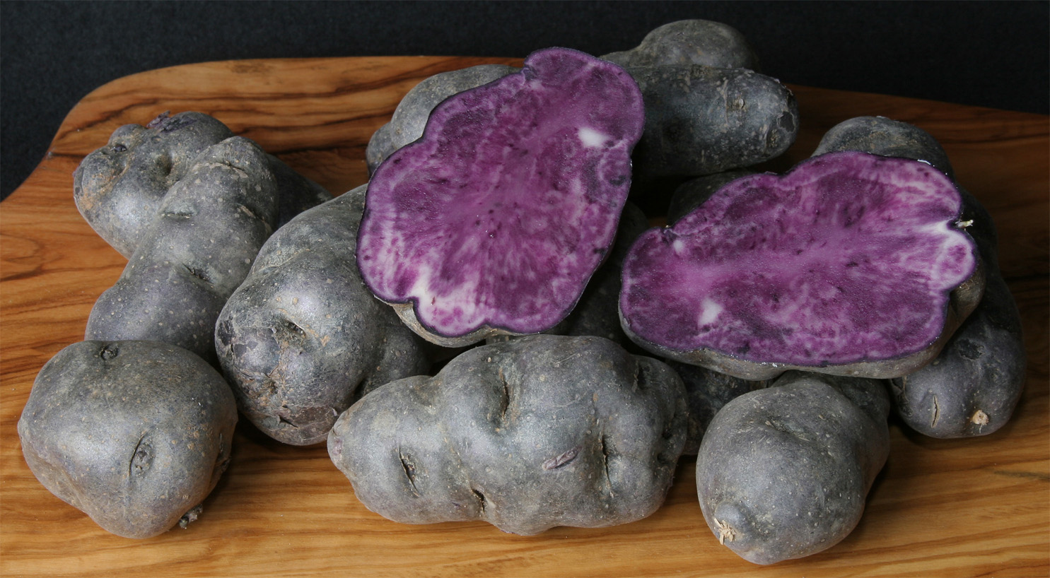 Vitelotte, a purple potatoe. Submitted by Chris K. Schleiermacher